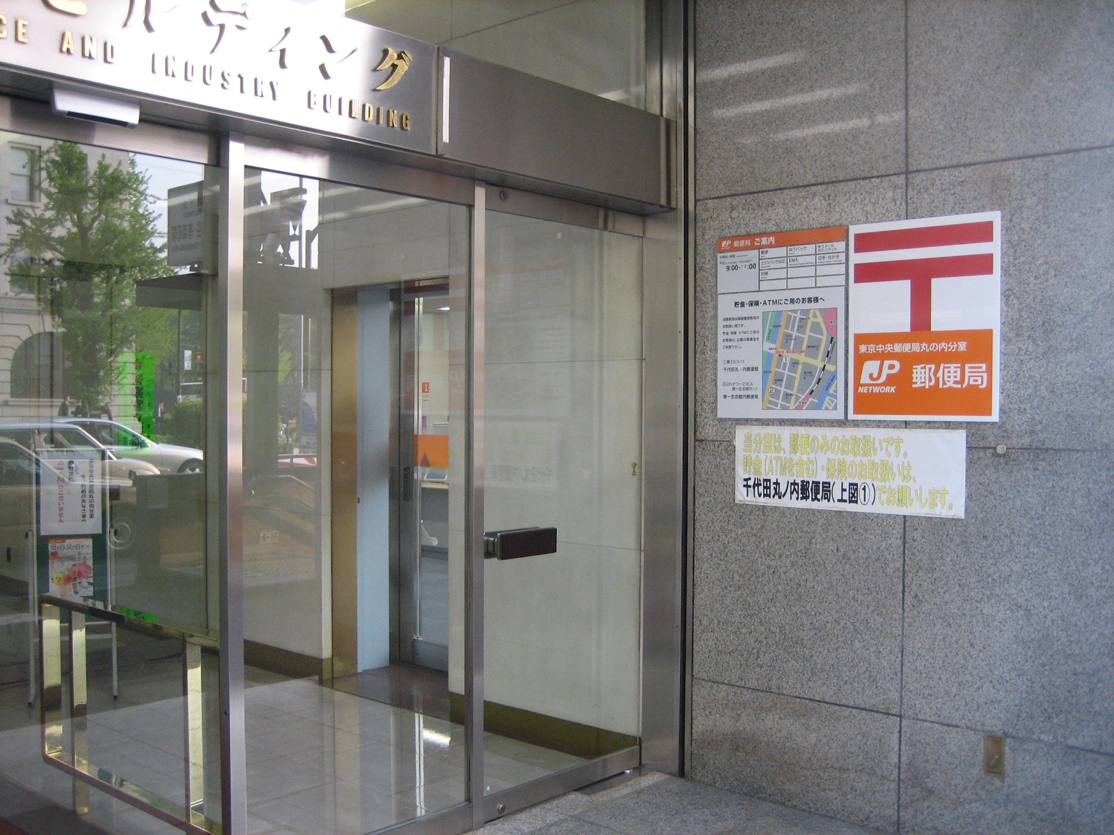 Tokyo central post office marunouchi branch